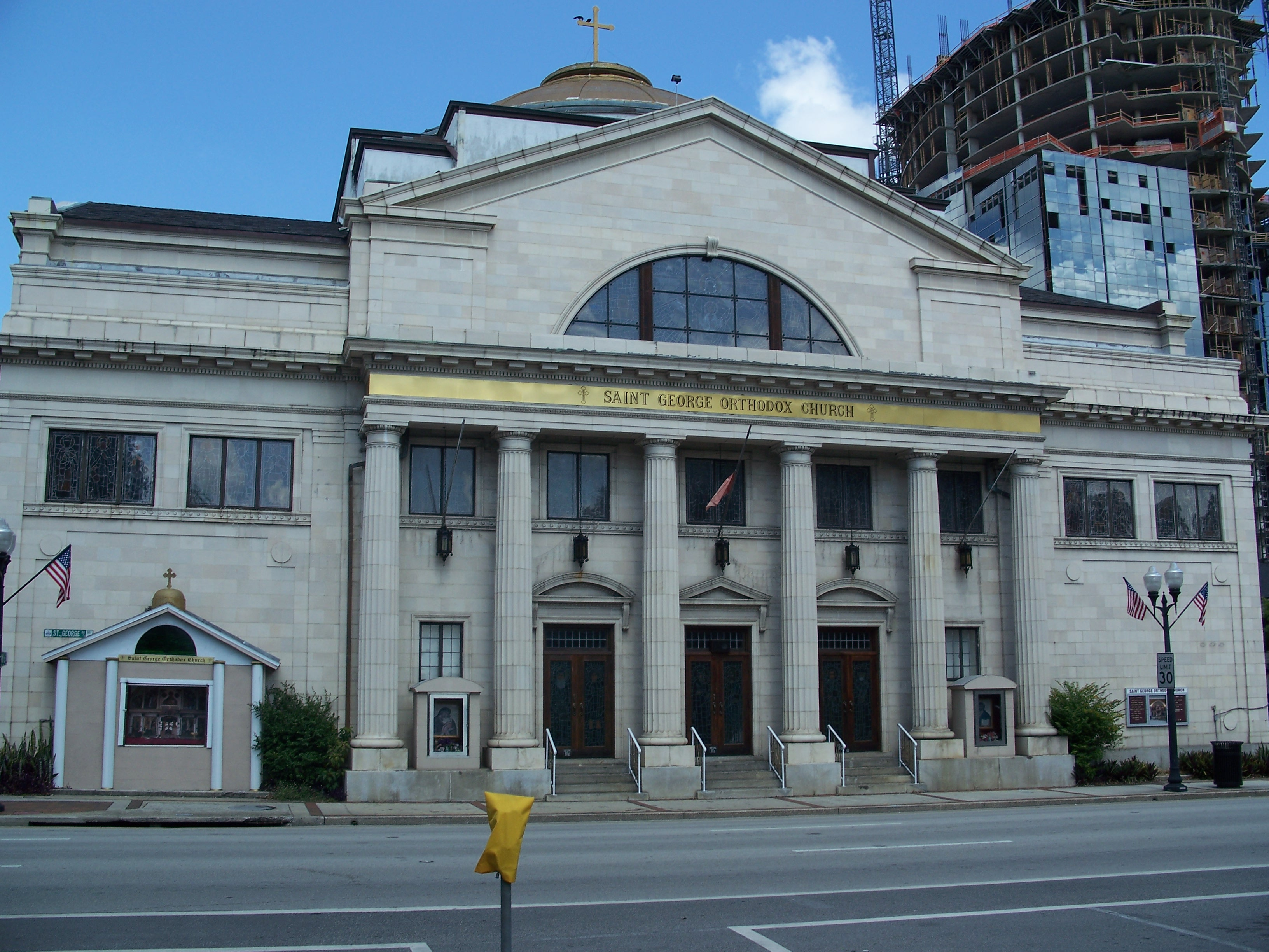 Former 1st Church of Christ Scientist, now a Greek Orthodox Church, in Orlando, Florida